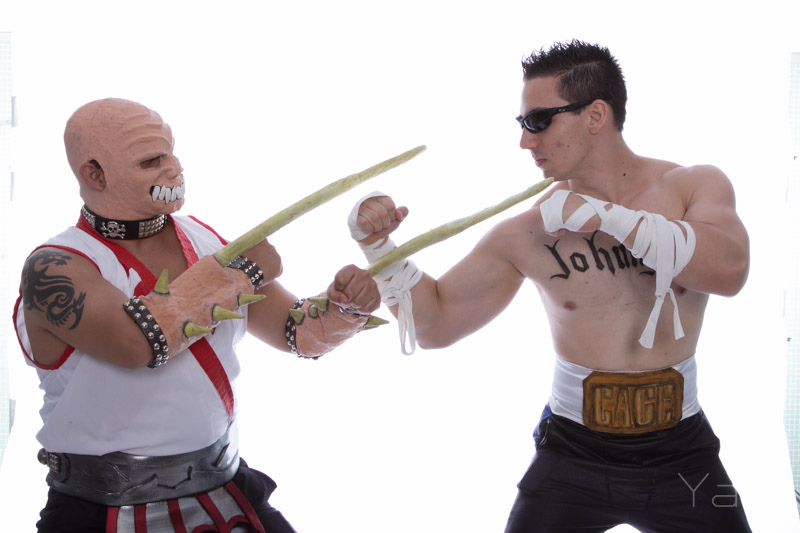 AnimABC - 2011 2nd ed.